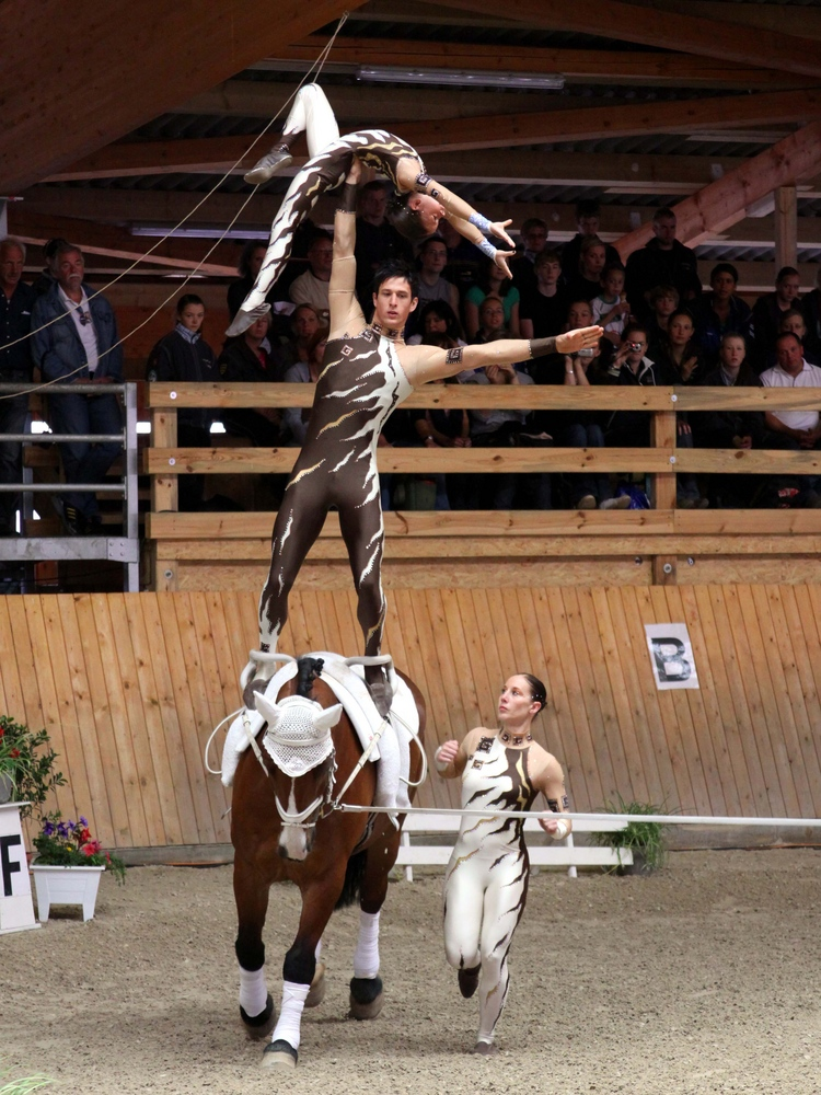 Freestyle team Habighorst